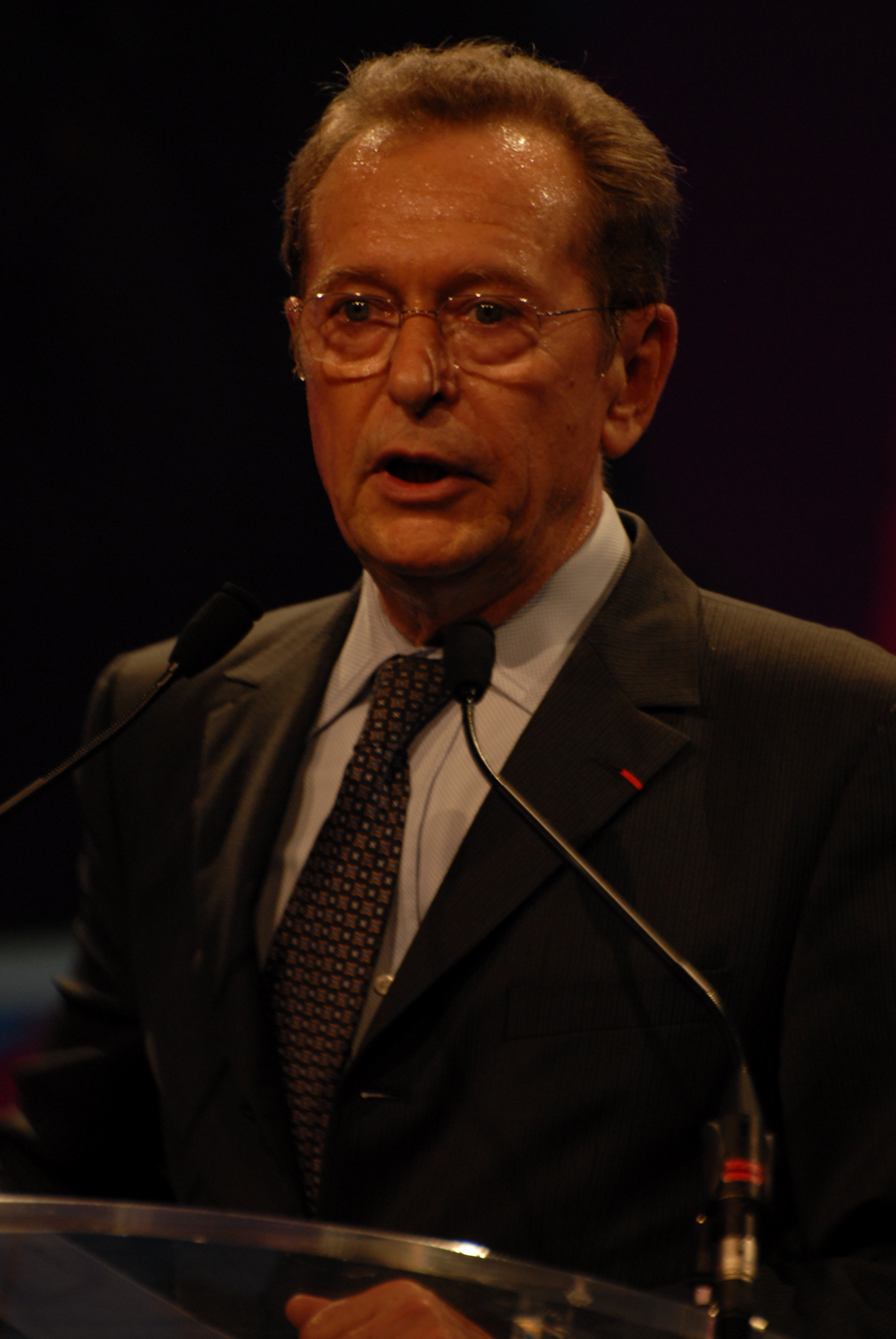 French politician Dominique Baudis supporting Jean-Luc Moudenc's candidacy for the French town elections in Toulouse, 2008.